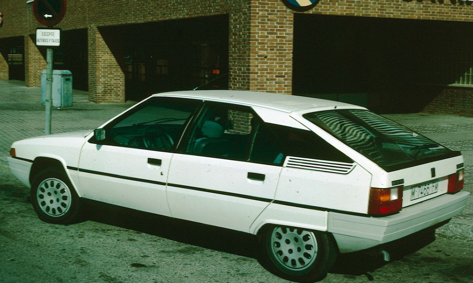 Citroen BX in Madrid rear three quarters